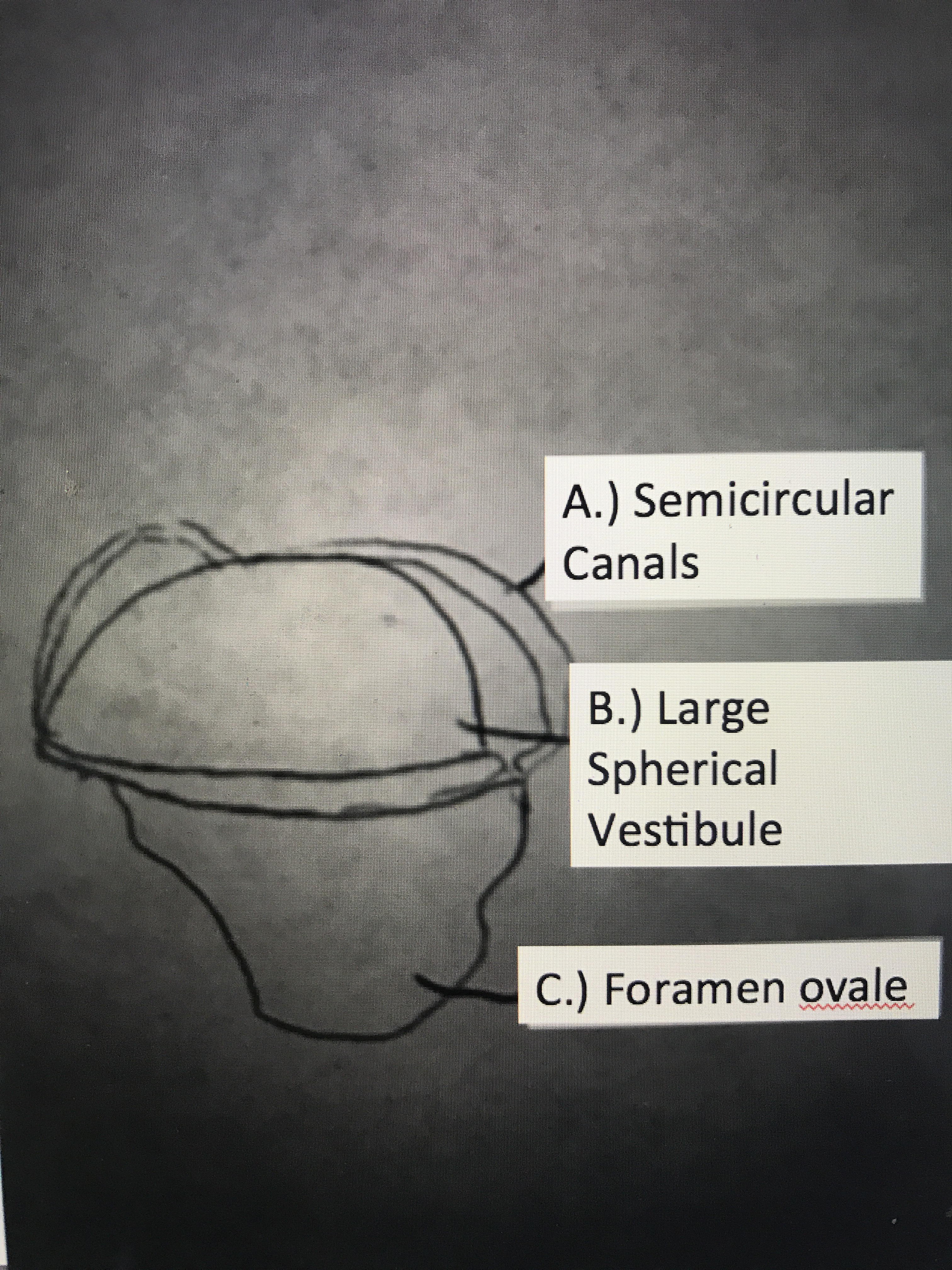 Figure 1: According to Dr. Yi, the x-ray computer tomography generated 3 significant figures to provide evidence towards its burrowing nature. A.) slender semicircular canals to wrap around the B.) large spherical vestibule, which is a morphological signature of burrowing. C.) Is a large foraman ovale to support blood flow and network.